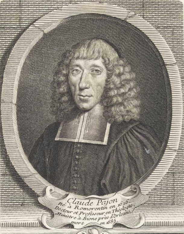 Cropped version of File:Claudepajon.jpeg